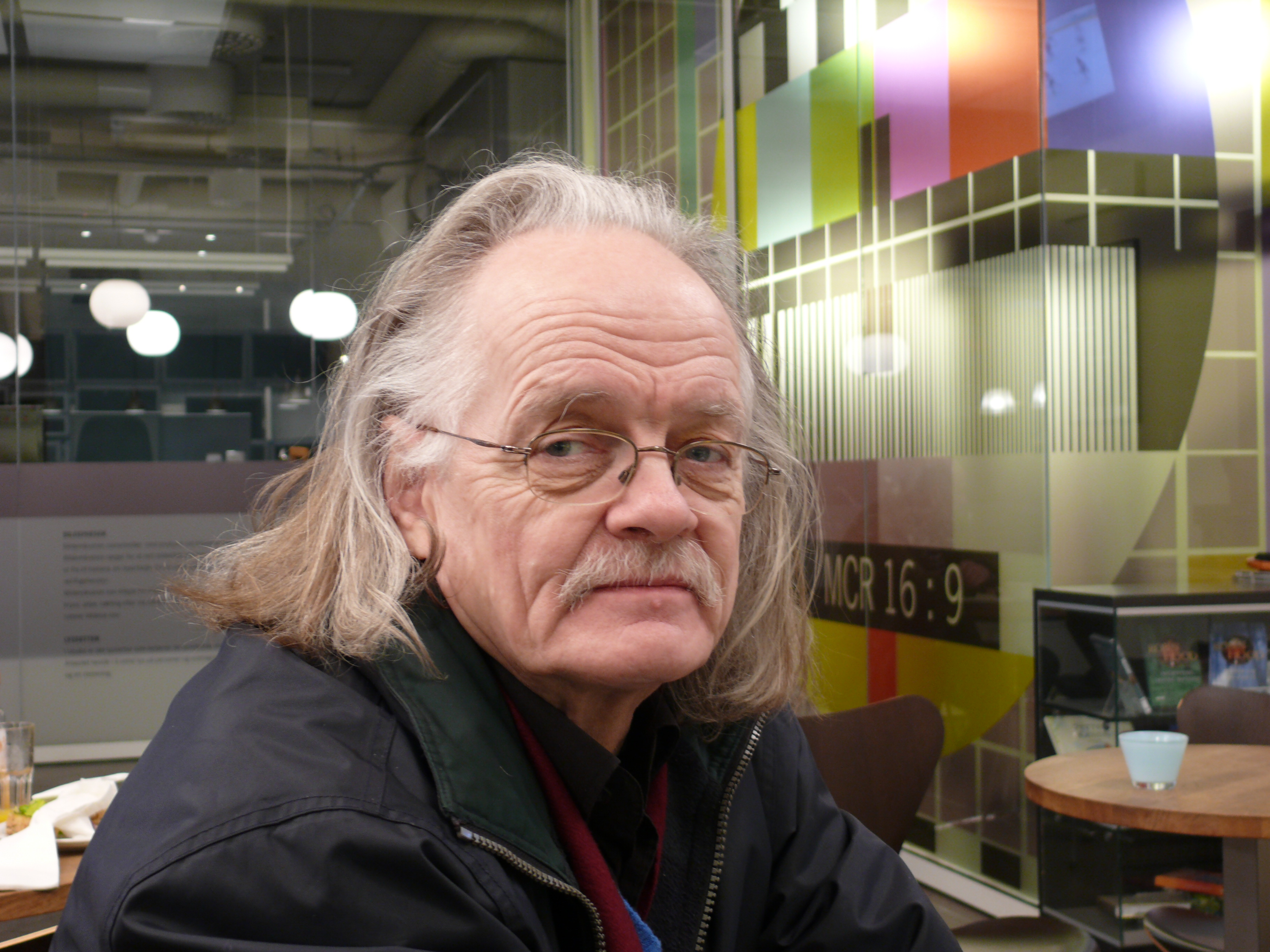 Norwegian photographer and photo historian Robert Meyer